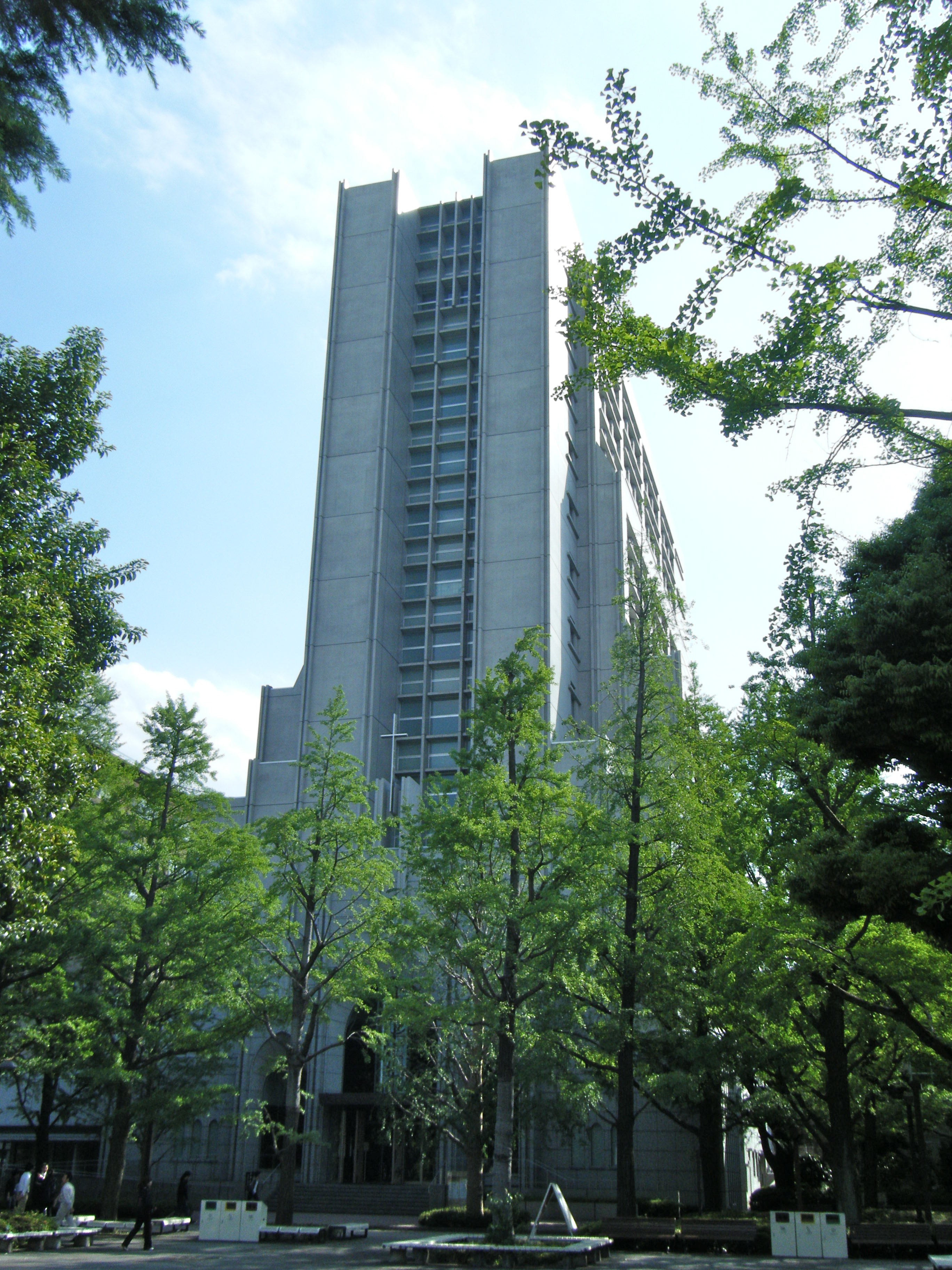 Aoyama Gakuin University inShibuya - Goucher Memorial Hall.